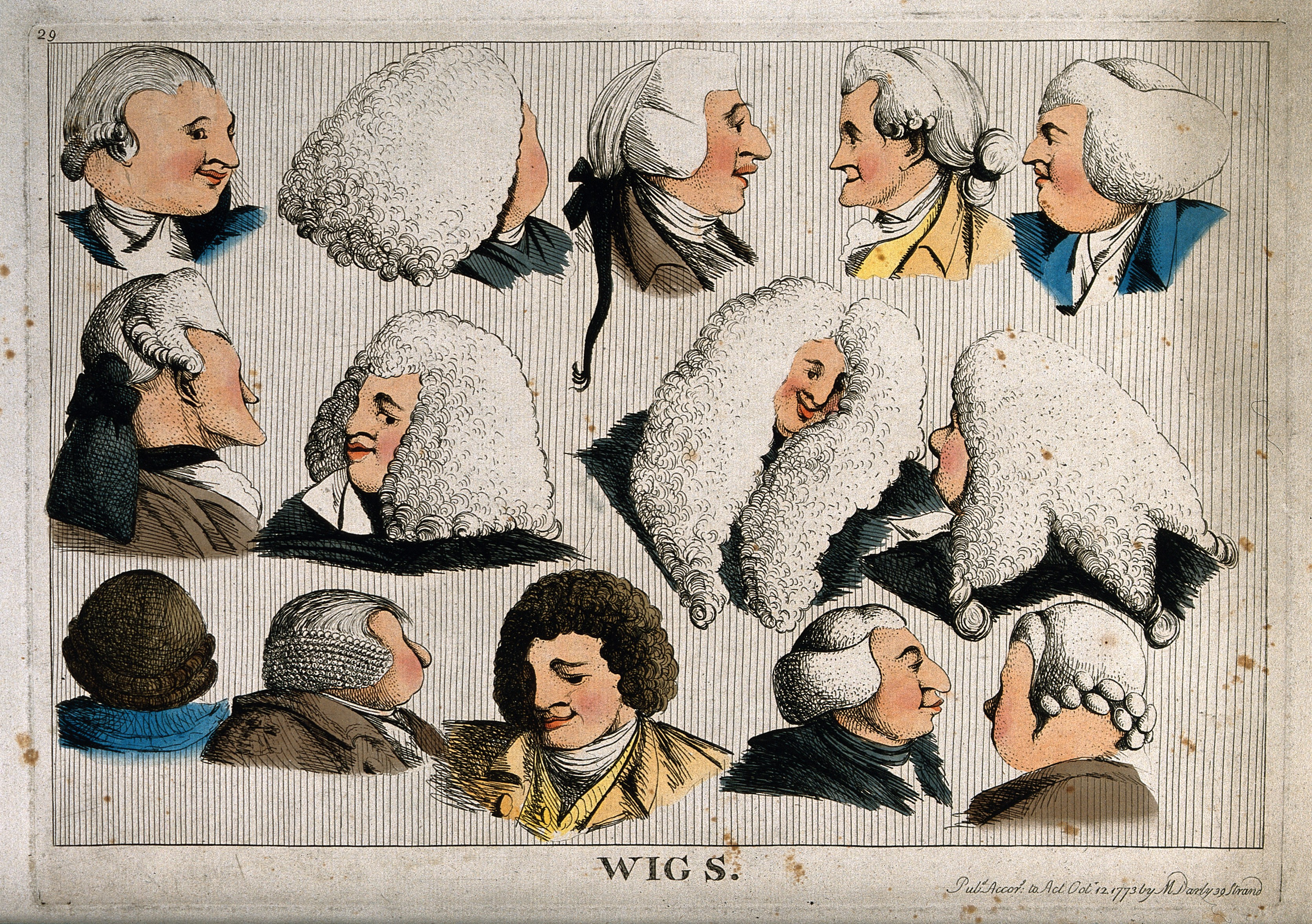 Fourteen heads showing different types of wigs for men. Iconographic Collections Keywords: Wig; Hairstyle; Fashion; Hair; Wig macker; Hairdressing